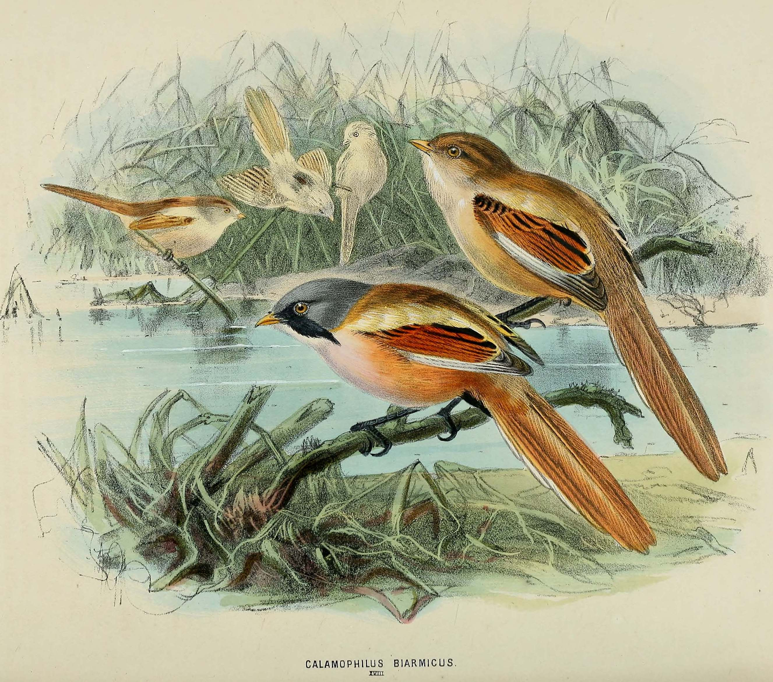 Panurus biarmicus